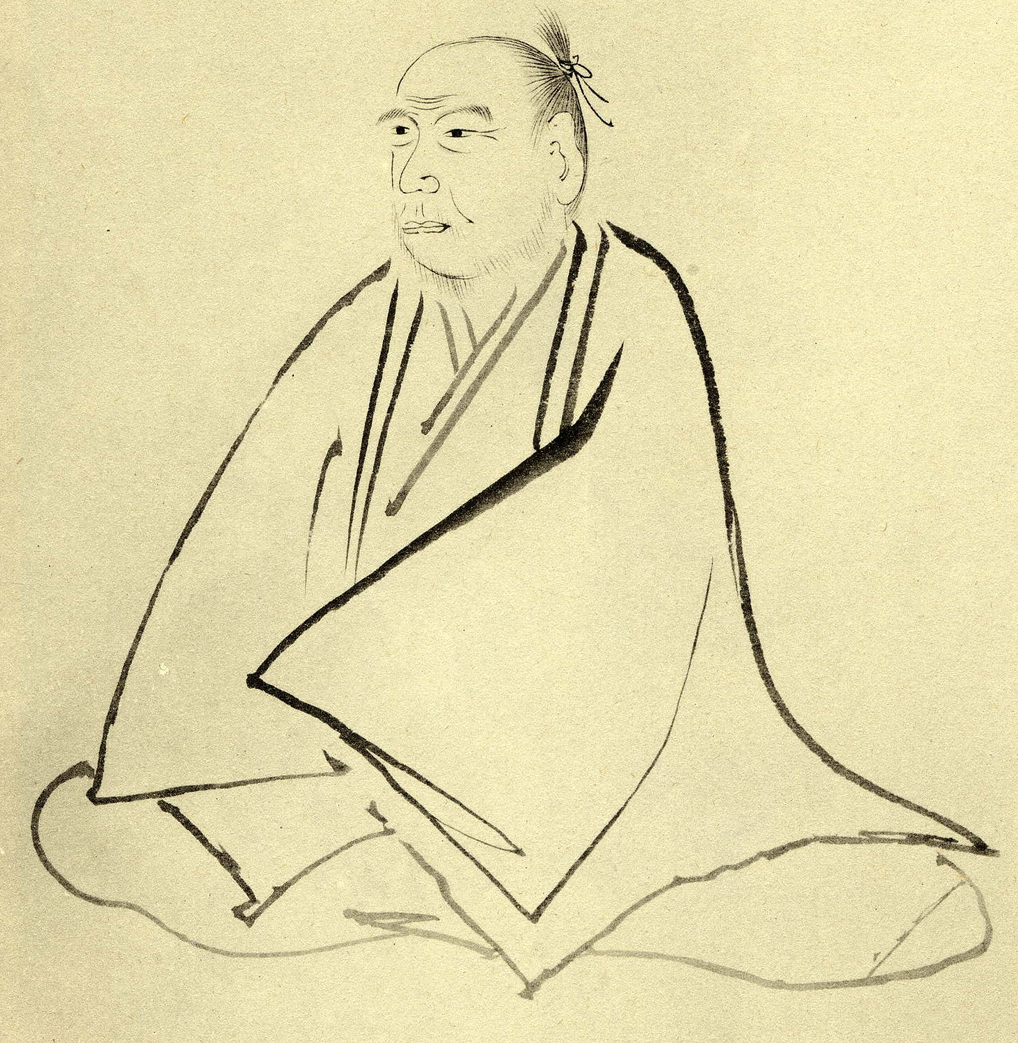 Kamo no Mabuchi (賀茂真淵; 1697-1769) was a Japanese poet and philologist of the Edo period.